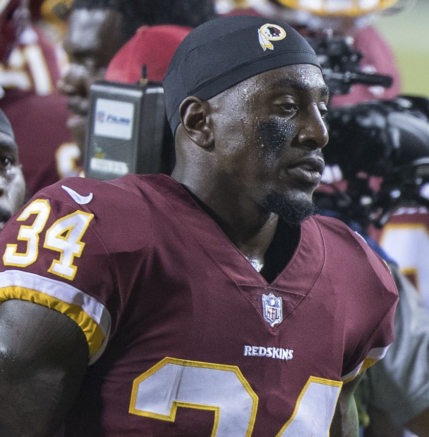 Washington Redskins running back, Mack Brown, celebrating after a victory over the Oakland Raiders on September 24, 2017.